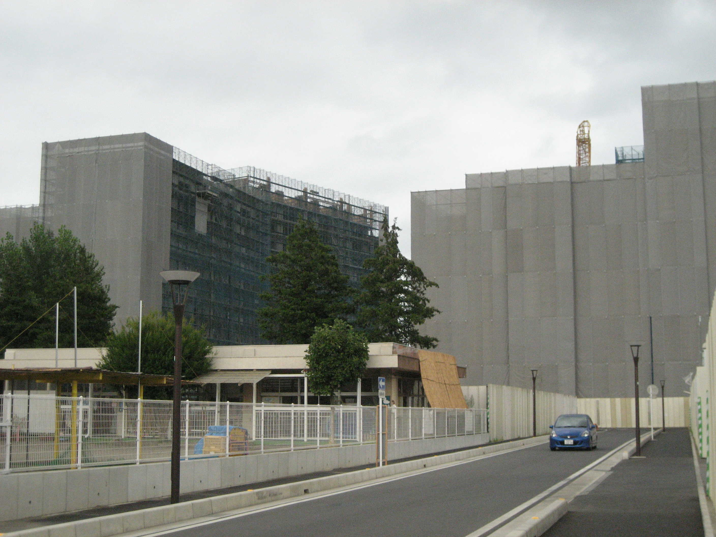 Matsubara Danchi housing complex